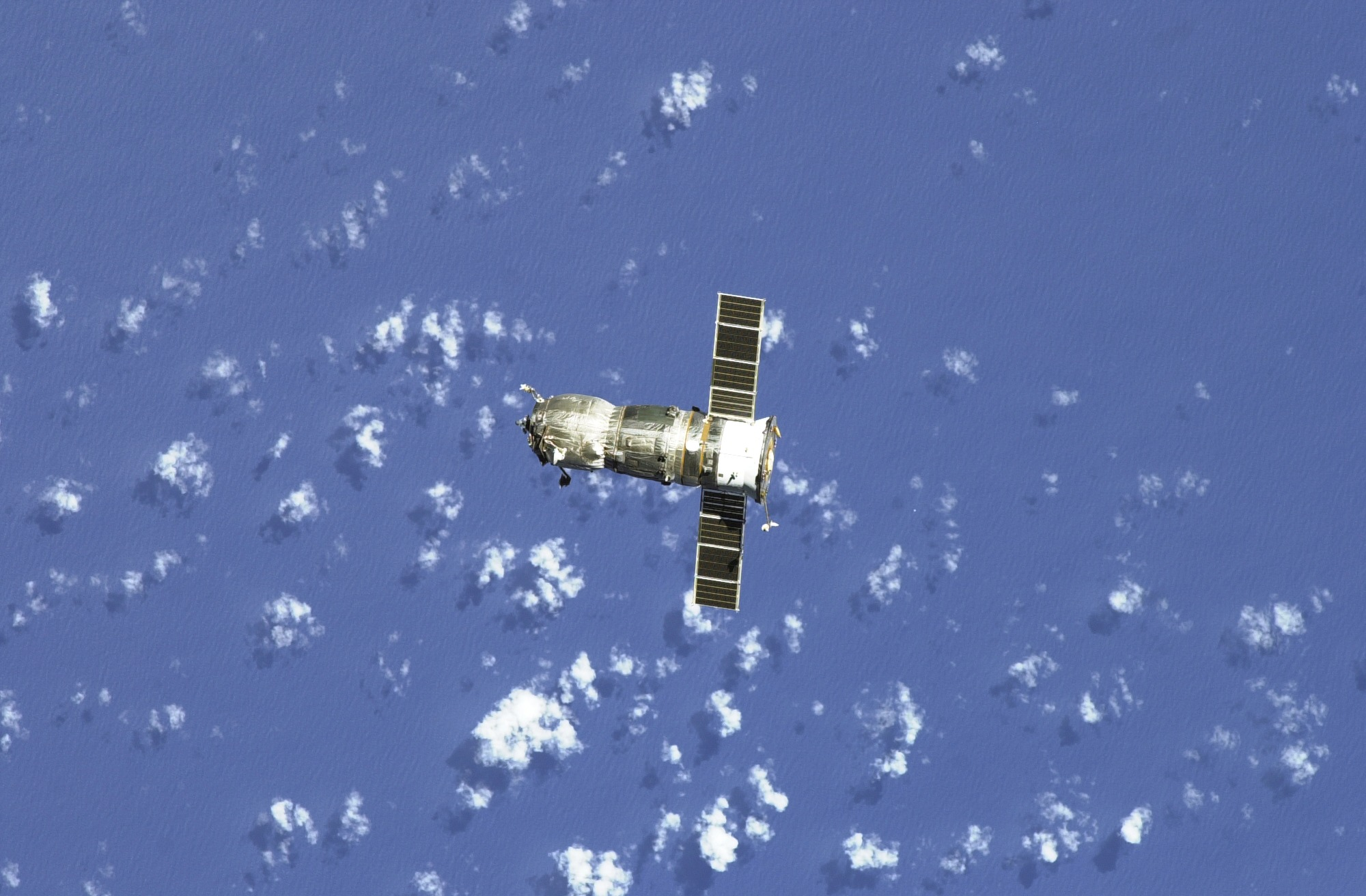 Backdropped by a blue and white Earth, an unpiloted Progress supply vehicle approaches the International Space Station (ISS). The Progress 12 resupply craft, which launched from the Baikonur Cosmodrome in Kazakhstan at 8:48 p.m. (CDT) on August 28, 2003, carried nearly three tons of food, fuel, water, supplies and scientific gear for the Expedition 7 crew aboard the Station. The Progress linked up with the Station at 10:40 p.m. (CDT) on August 30, 2003 as the two spacecraft were flying over Central Asia at an altitude of 240 statute miles.